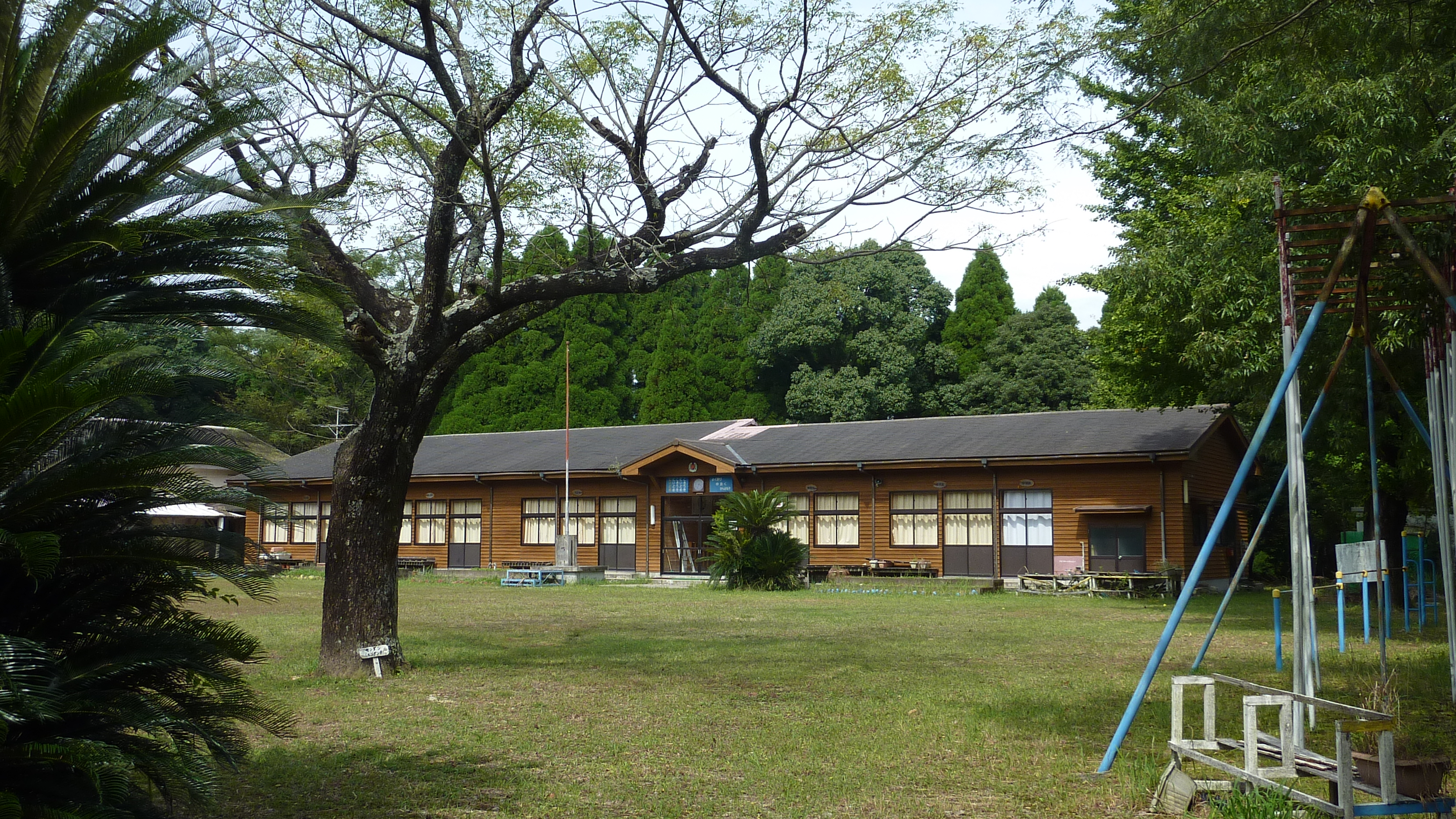 Niidome Elementary School - closed (Kamo, Aira City, Kagoshima, Japan)